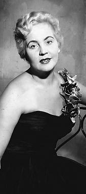 Publicity photograph of the Finnish opera singer Anita Välkki (1926–2011).